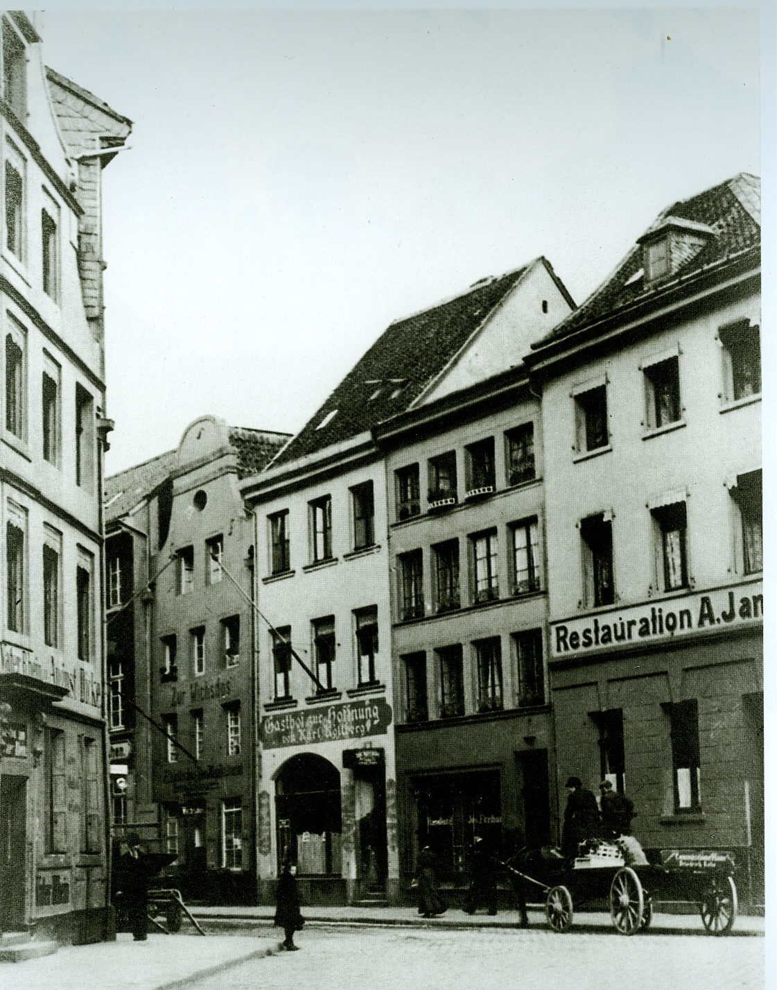 t